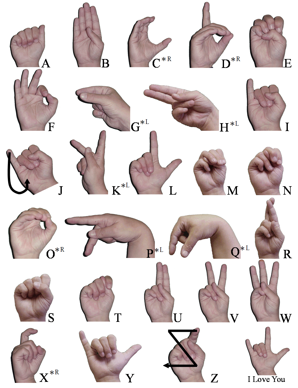 The American manual alphabet in photographs